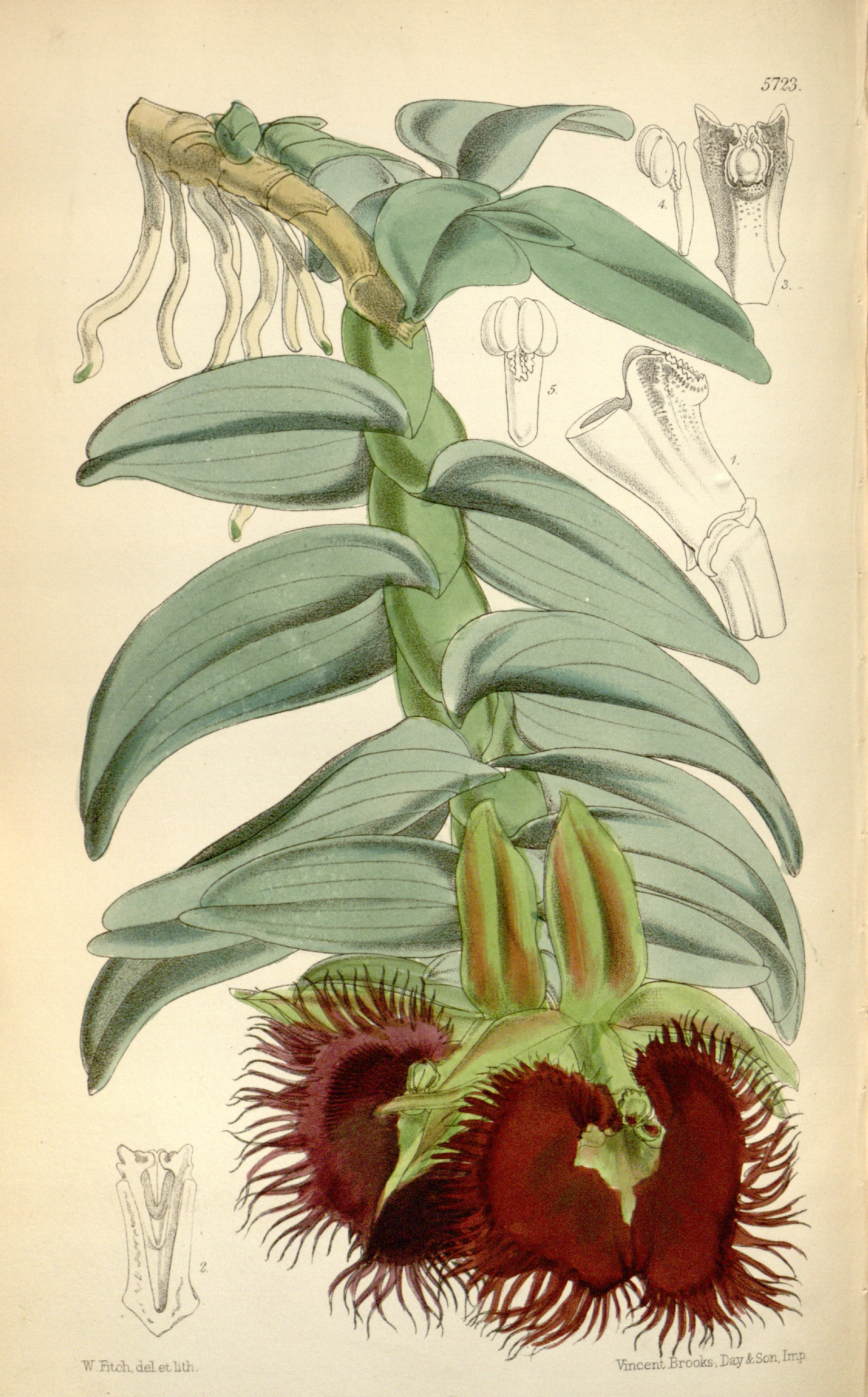 Illustration of Epidendrum medusae or Nanodes medusae